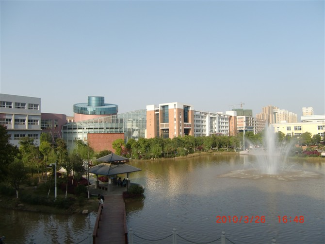 Hunan Mass Media Vocational Technical college,this photo shows The Teaching building..